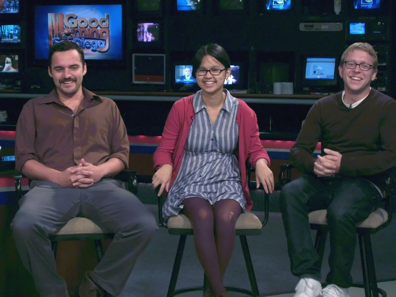 JakeJohnson & Charlyne Yi are two of the stars of the movie 'Paper Heart.' Nick Jasenovec directed the movie.